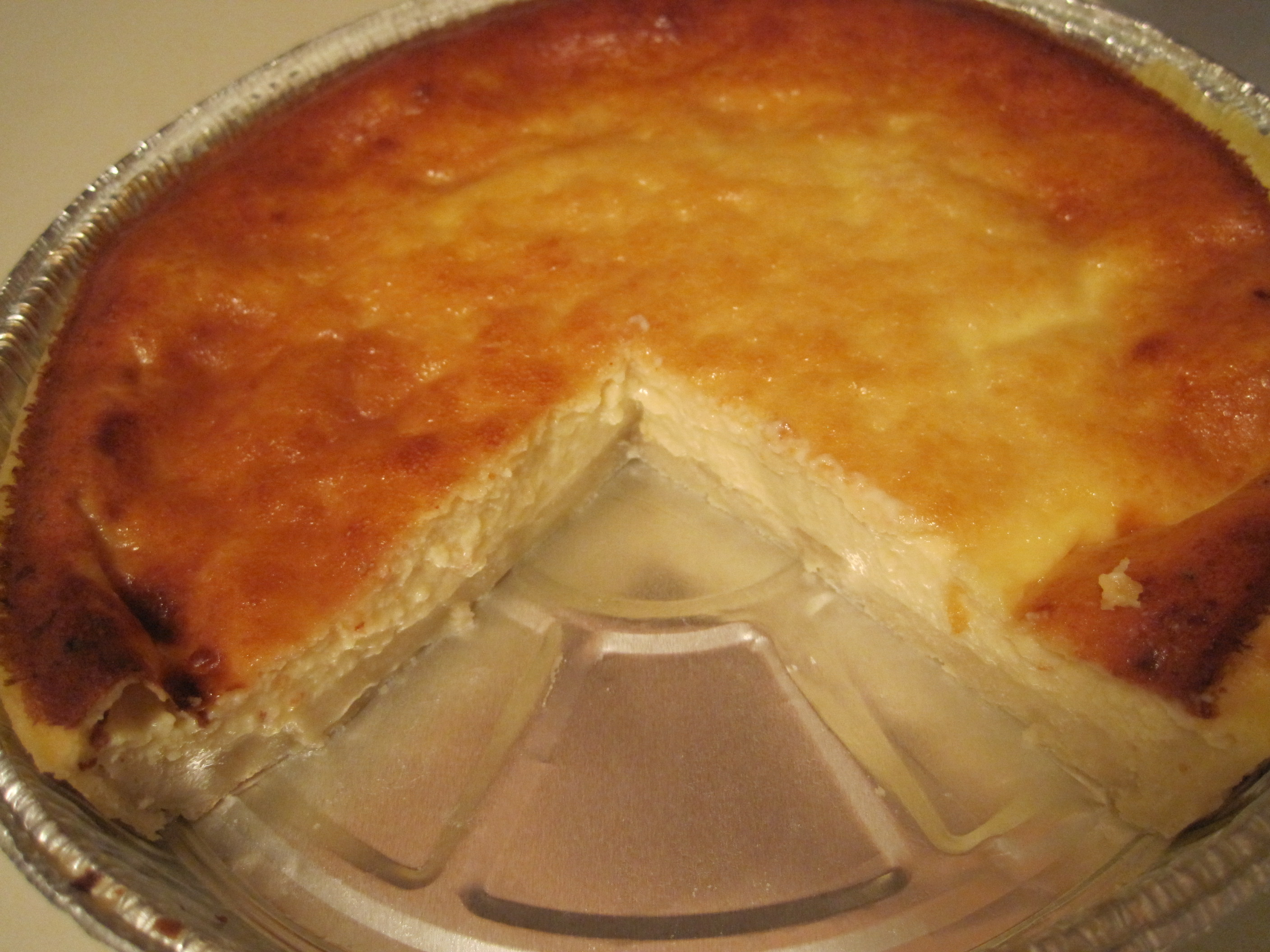 Flickr picture 5236595752 by user Kim (thegirlsny) of a savory flan, showing its interior.